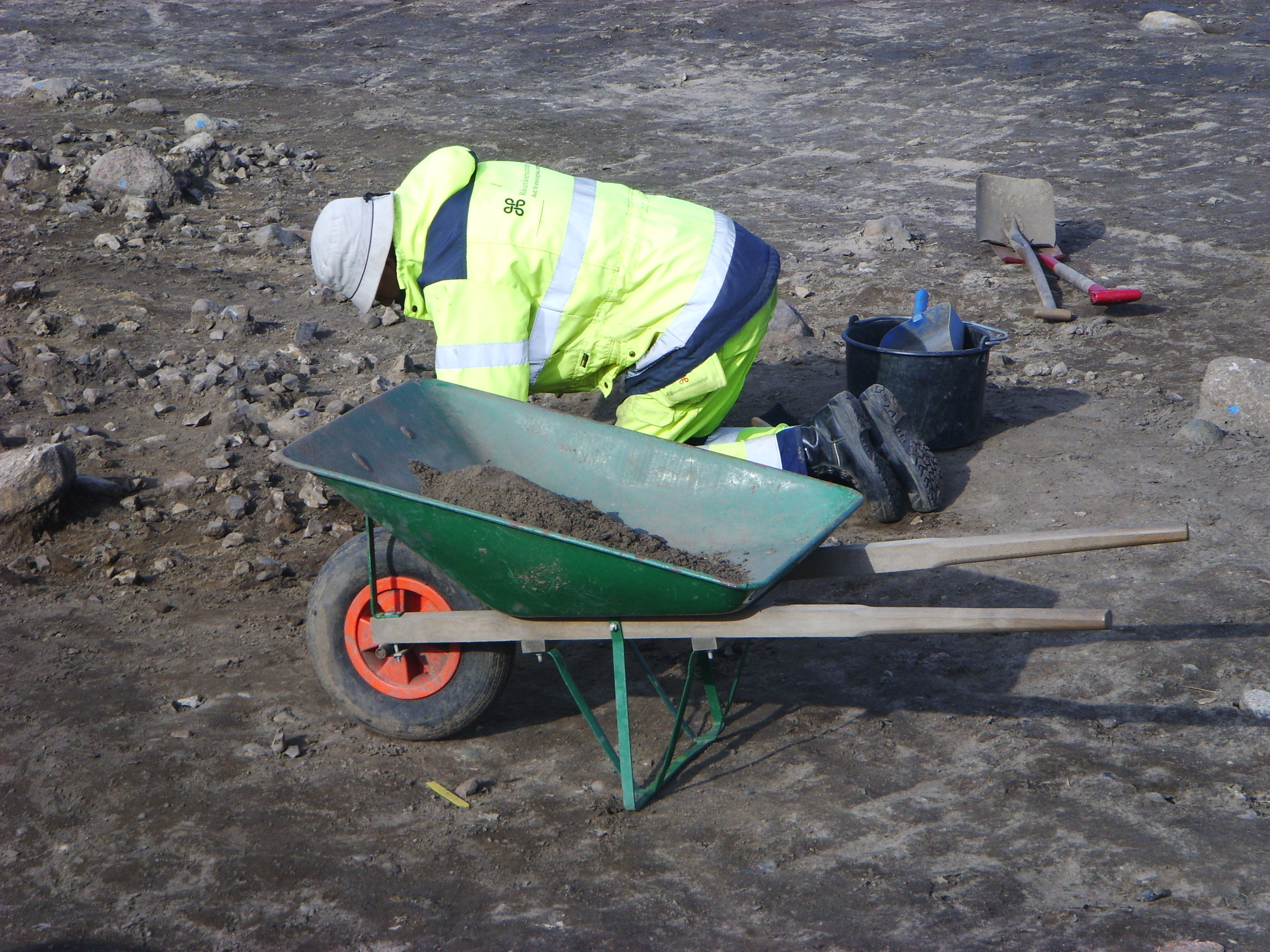 Archaeologists have in the years 2007-2008 found a unique place of worship for Sweden from the Stone Age at Döserygg just north of Trelleborg. It is a complex consisting of a ritual way similar to those found at Stonehenge in England. The road leading to the large megalithic stone graves, where the stone blocks have been the roof over their graves. Offer rewards found in the wetland. Over a thousand years, people gathered at Döserygg for funerals and other rites. Fourteen megalithic tombs have been found on a relatively small area, The area has been a ritual way. Archaeologists have found that it has been surrounded by densely standing man-high piles of trees, making way unique in Scandinavia. Comparable to similar archaeological remains in England, where there is a procession routes and ceremonial roads leading into the major monuments.